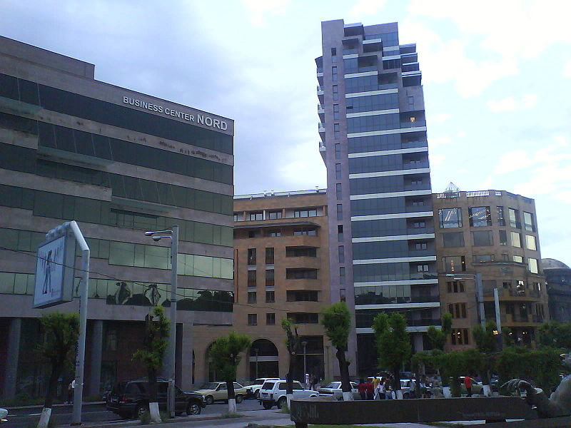 Northern Avenue